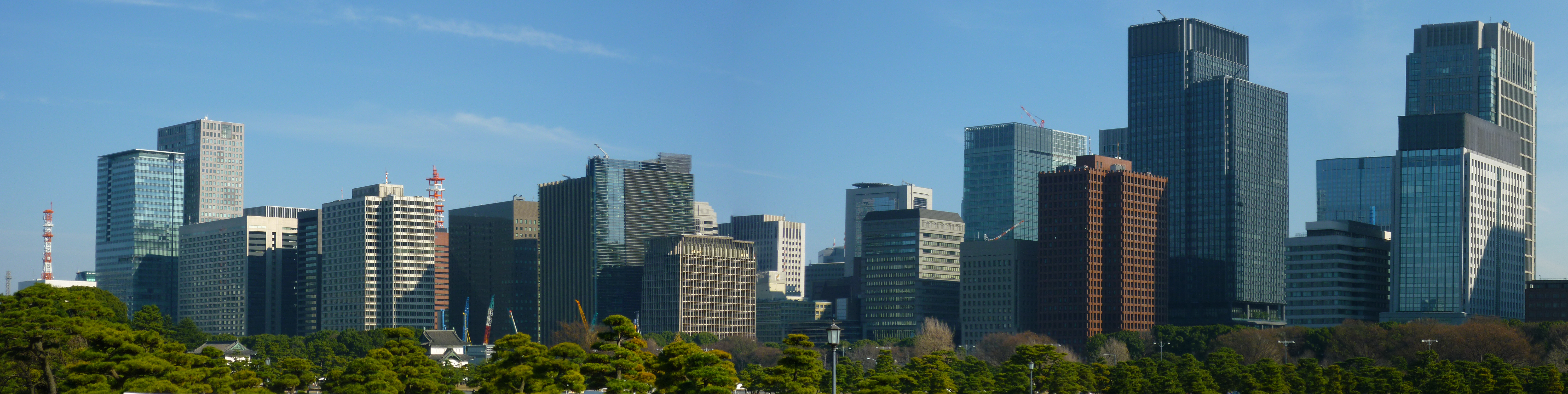 View of a portion of Downtown Tokyo from the Tokyo Imperial Palace.